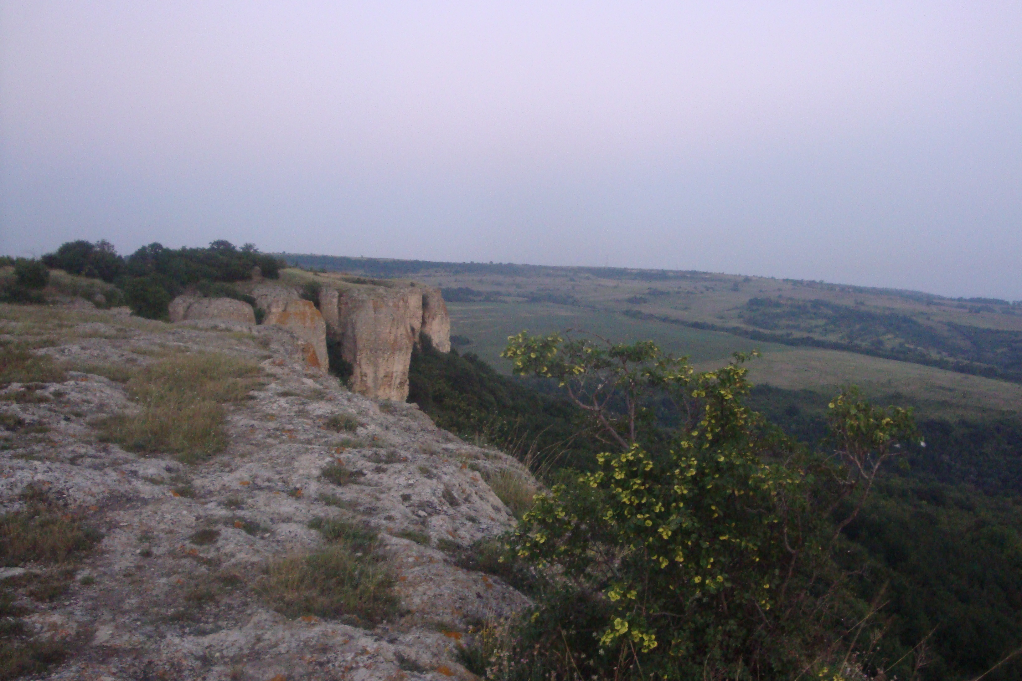 Cliffs near the village of Avren in the Avren municipality of Bulgaria at sunset.